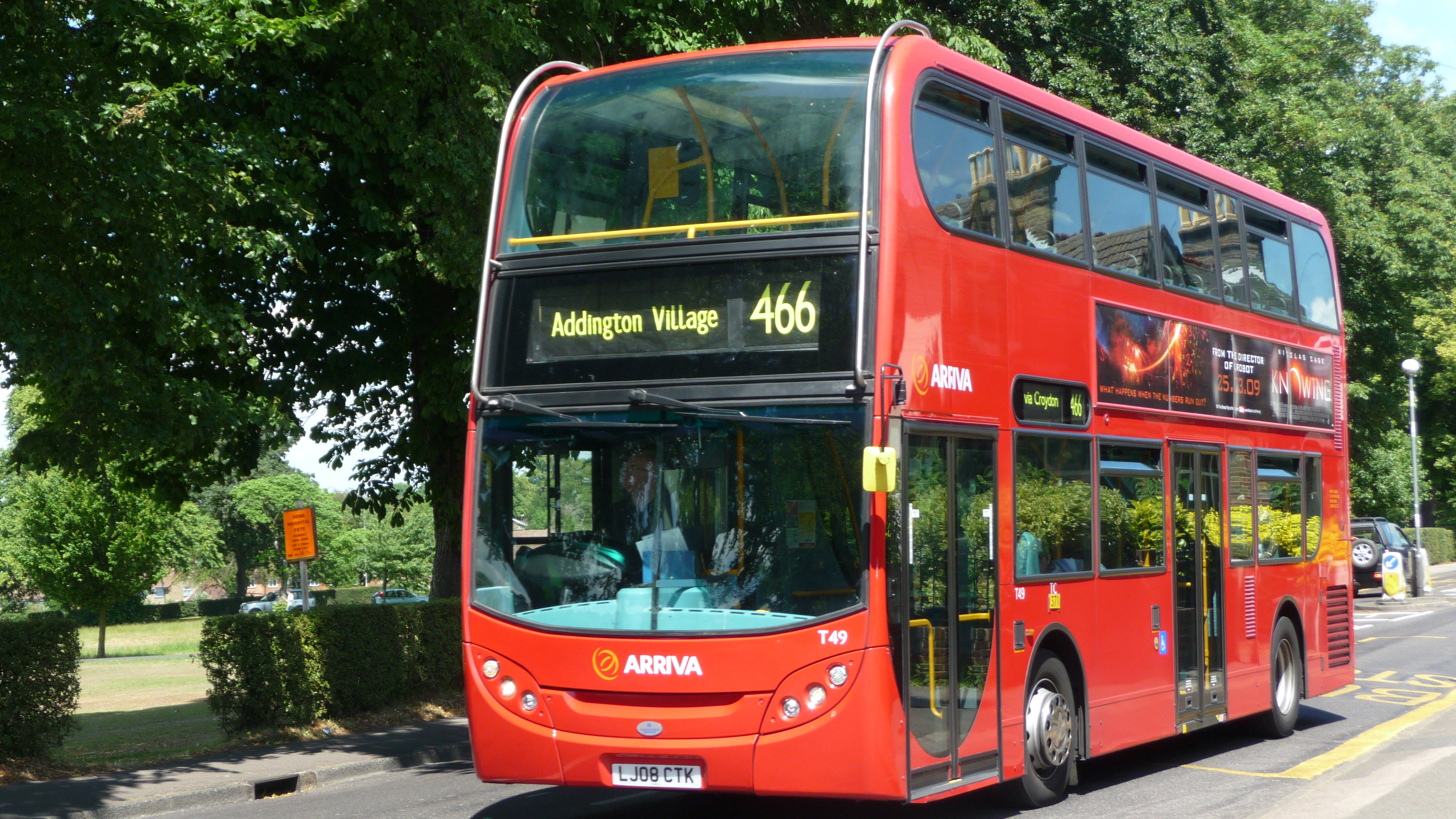 Arriva London South T49 (LJ08 CTK), an Alexander Dennis Enviro400, in Chaldon Road, Caterham-on-the-Hill, Surrey, on route 466. Chaldon Road is one of three roads forming a triangle, which is the terminal loop of route 466.